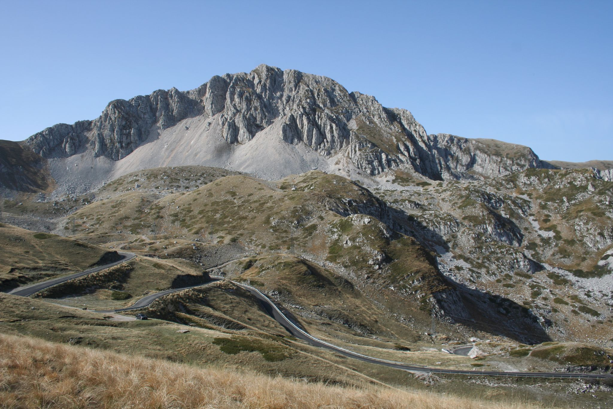 One of Terminillo Mountain's peaks (Province of Rieti, Lazio, Italy). Taken at 2000 meters on sea level circa.